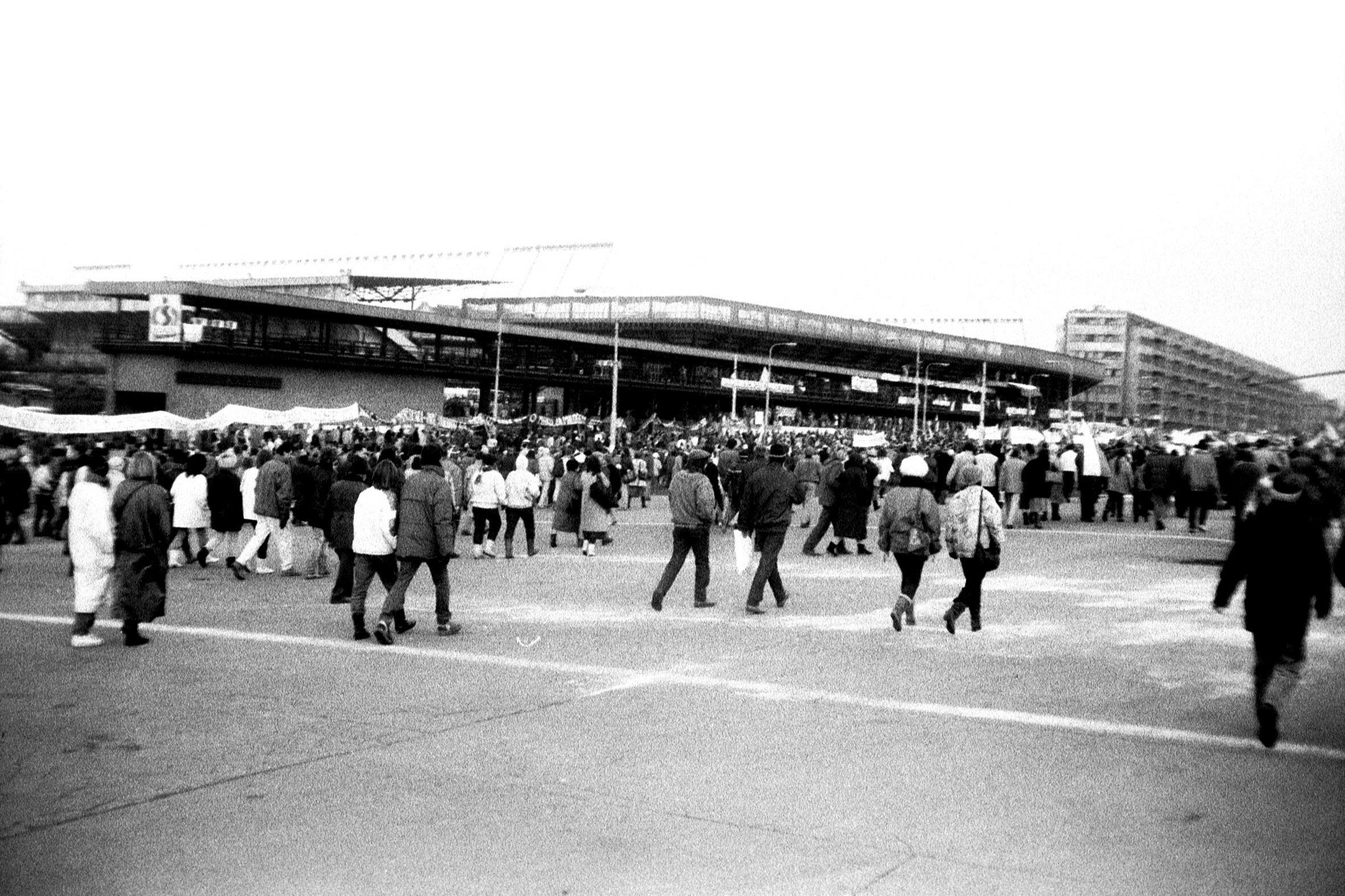 Prague during the Velvet Revolution.